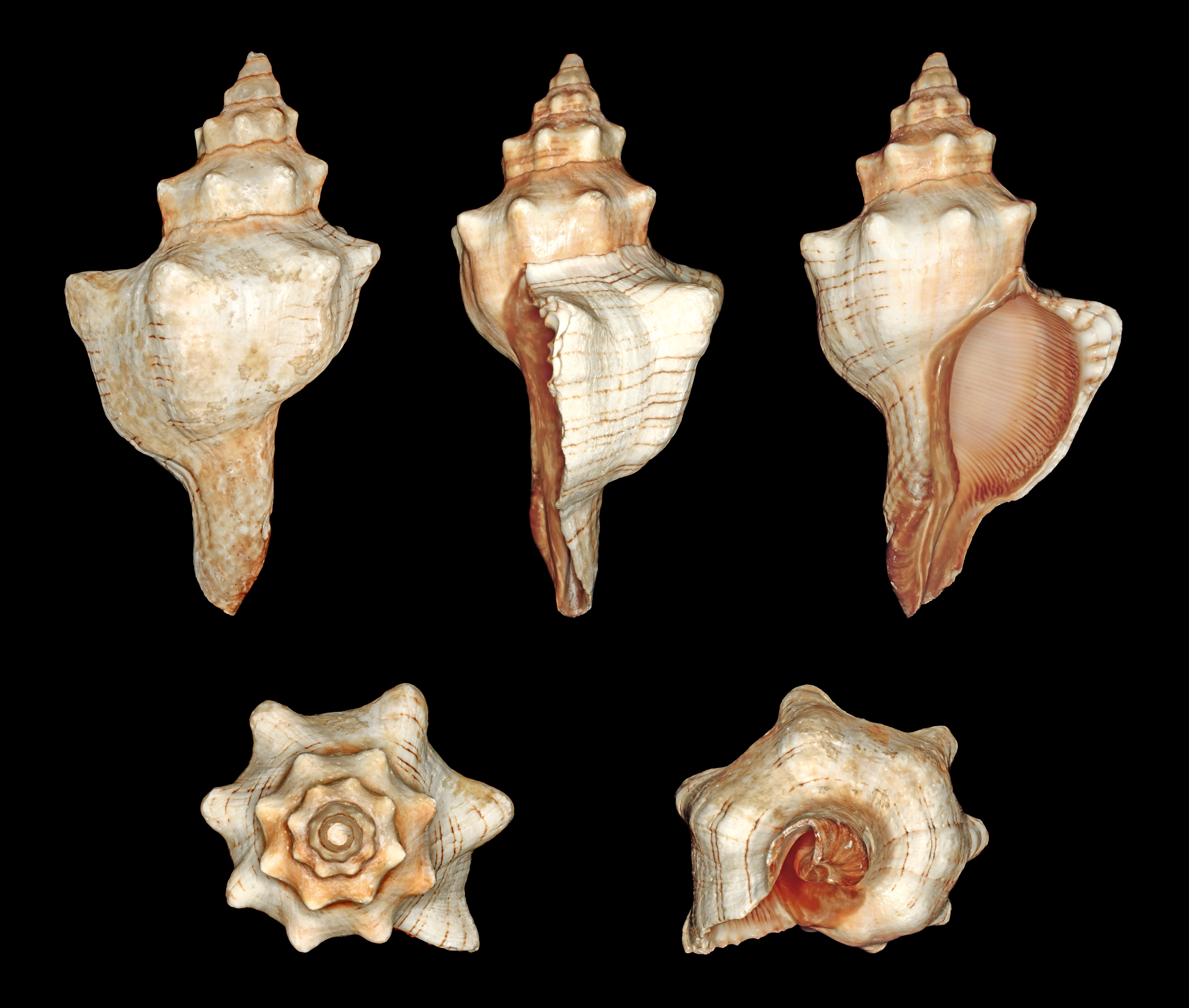 Trapezium Horse Conch; Length 15.5 cm; Originating from the Indo-Pacific; Shell of own collection, therefore not geocoded. Dorsal, lateral (right side), ventral, back, and front view.